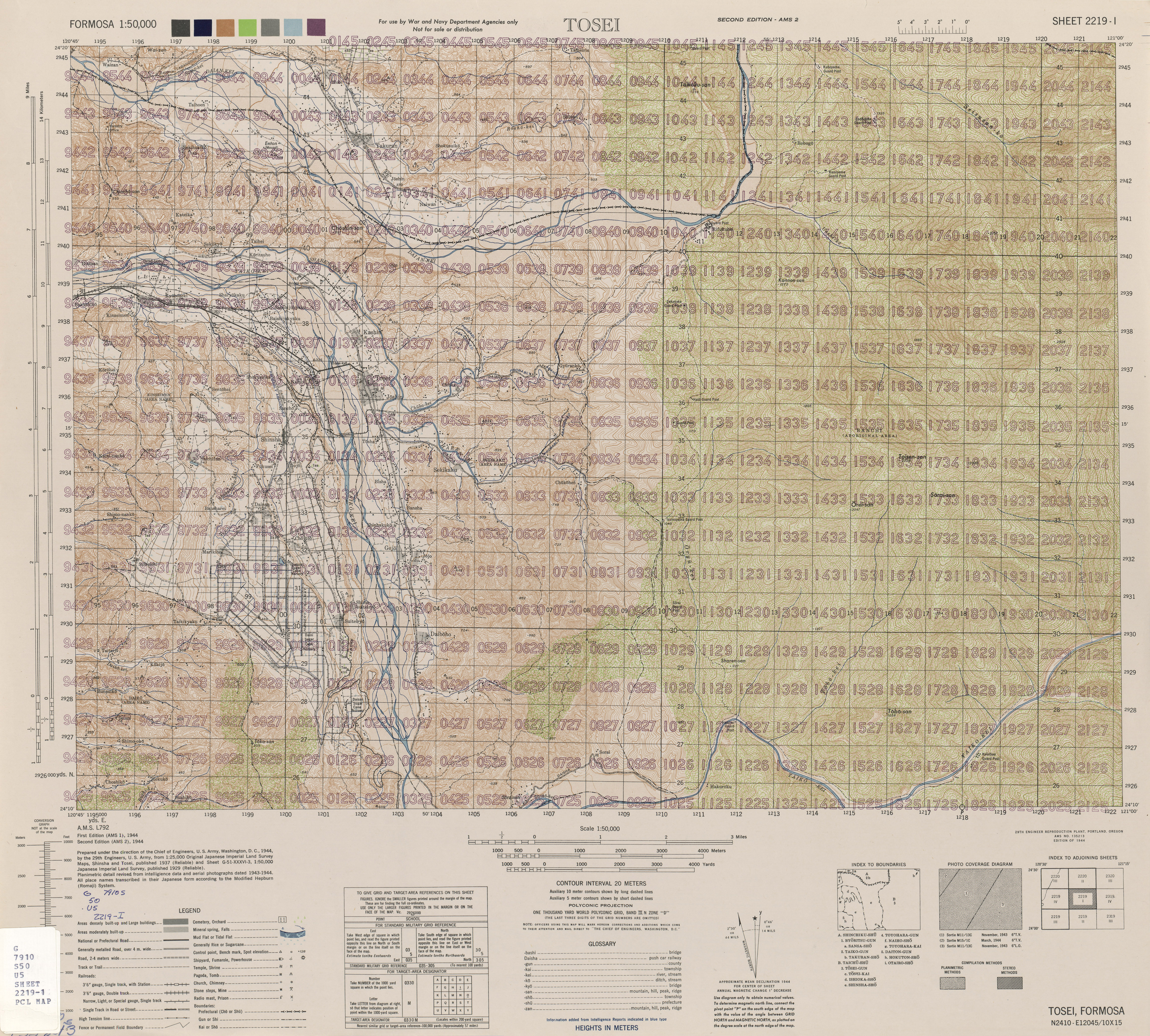 Map from Formosa (Taiwan) 1:50,000 AMS Series L792